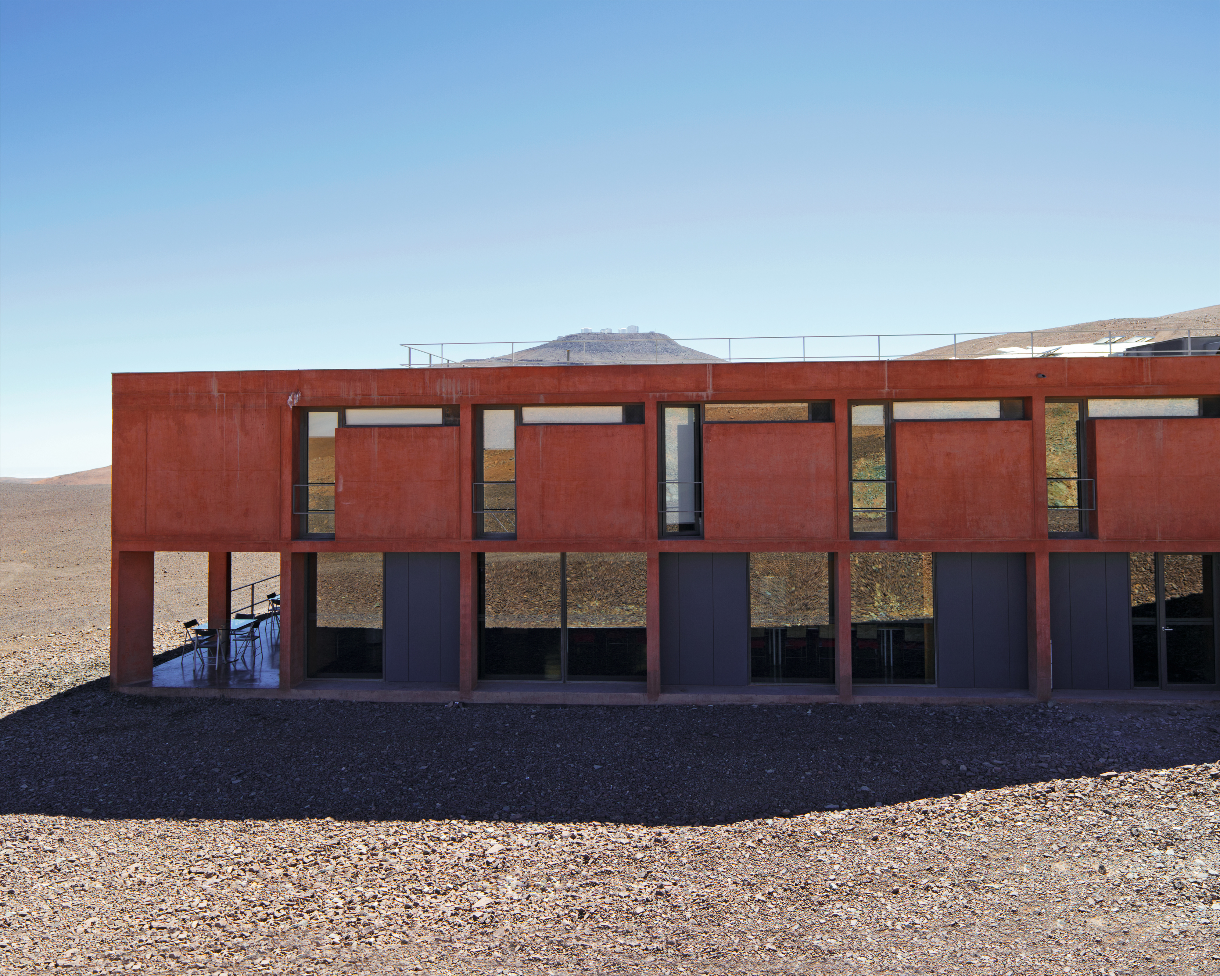 This is the present-day image from the Then and Now comparison Picture of the Week: Building the Paranal Residencia — From Turbulence to Tranquility